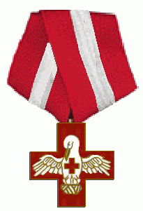 Danish Cross of Merit